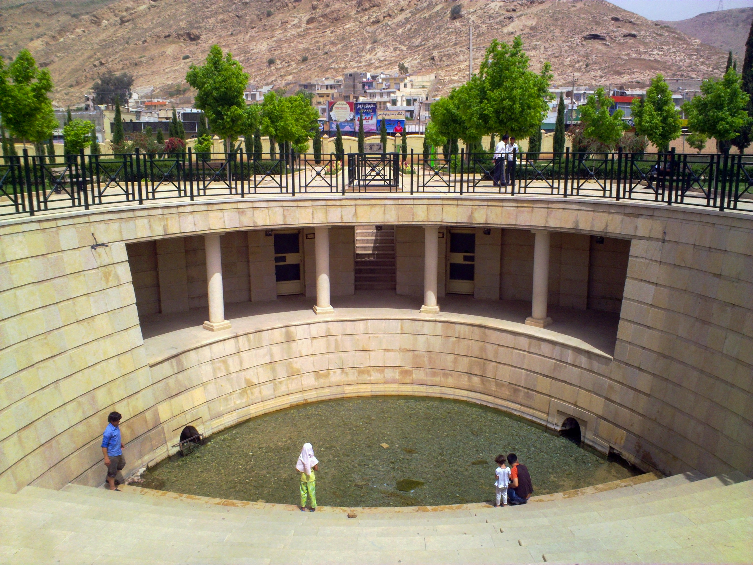 The Tomb of Saadi is a tomb and mausoleum dedicated to the Persian poet Saadi in the Iranian city of Shiraz. Saadi was buried at the end of his life at a Khanqah at the current location. In the 13th century a tomb built for Saadi by Shams al-Din Juvayni, the vizir of Abaqa Khan. In the 17th century, this tomb was destroyed.